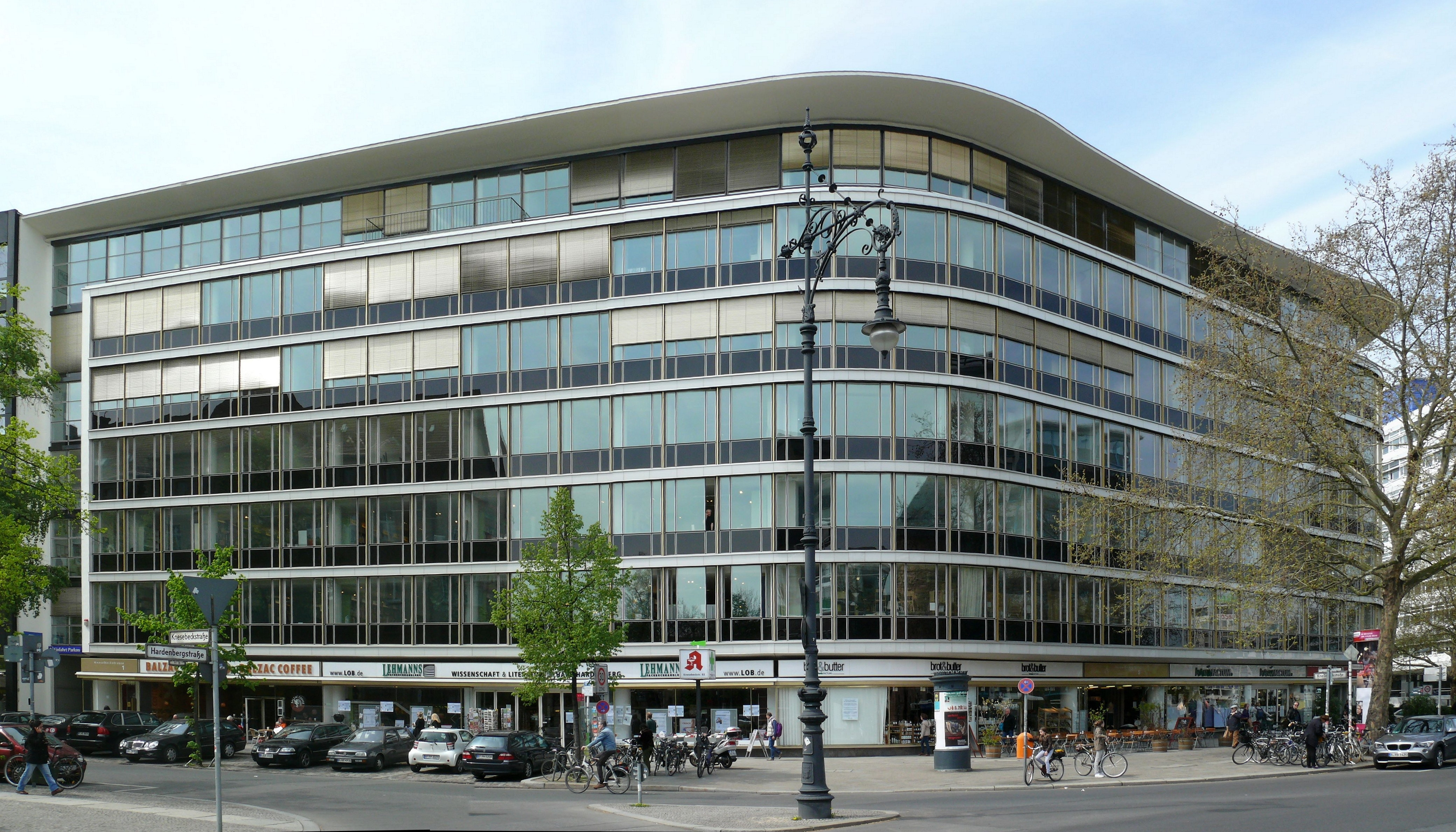 Charlottenburg Knesebeckstraße Kiepert-Haus